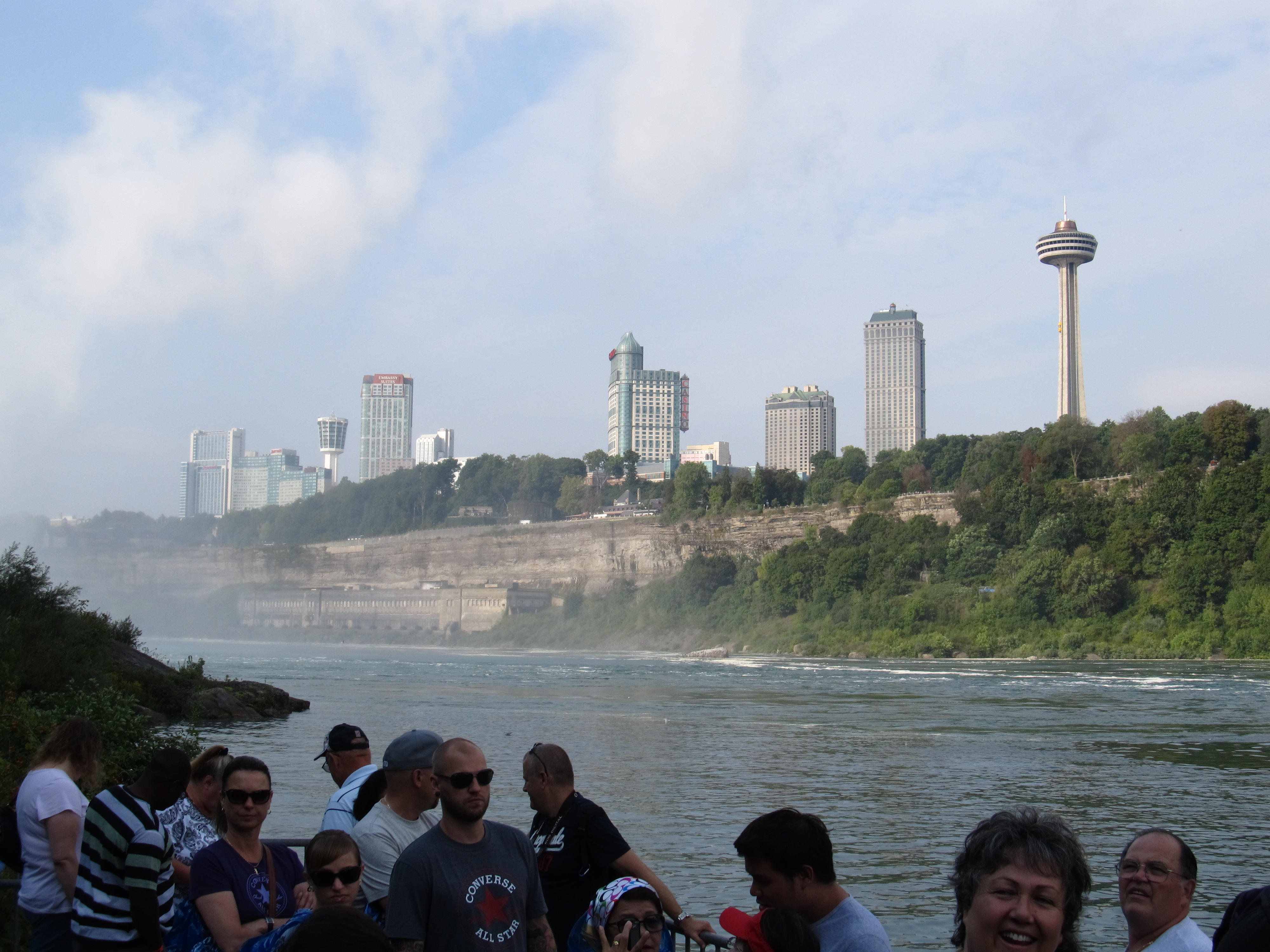 Niagara Falls is a Canadian city on the Niagara River in the Golden Horseshoe region of Southern Ontario, with a population of 82,997 at the 2011 census. The municipality was incorporated on June 12, 1903. Across the Niagara River is Niagara Falls, New York. The city is dominated by the Niagara Falls, a world-famous set of three large waterfalls on the Niagara River and benefits from the fact that both falls, the American and Horseshoe, can be best seen from the Canadian side of the river, thus presenting the city one of the major tourist attractions of the world. The natural spectacle brings in millions of tourists yearly. The city permitted the development of a tourist area along the falls and the gorge. This area which stretches along the Niagara Parkway and tourist promenade is particularly concentrated at the brink of the falls and, apart from the natural attractions along the river, includes huge parking lots, souvenir shops, observation towers, high-rise hotels, casinos and theatres, mostly with colourful neon billboards and advertisements. Further to the north or south there are golf courses alongside historic sites from the War of 1812.